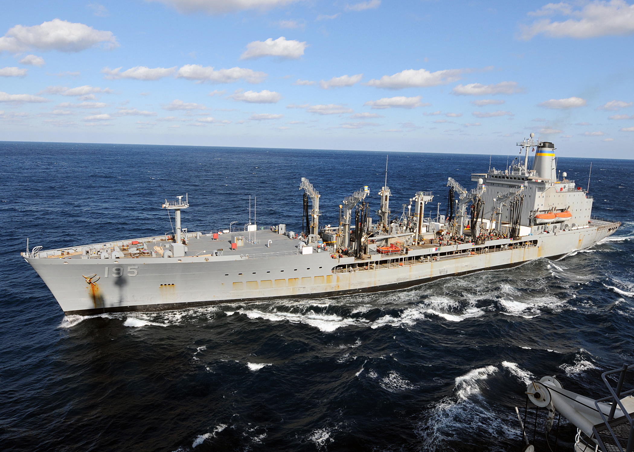 ATLANTIC OCEAN (Feb. 8, 2010) The Military Sealift Command fleet replenishment oiler USNS Leroy Grumman (T-AO-195) breaks away from the aircraft carrier USS George H.W. Bush (CVN 77) after completing an underway replenishment. George H.W. Bush , the Navy's 10th and final Nimitz-class aircraft carrier, is underway in the Atlantic Ocean conducting a flight deck certification. (U.S. Navy photo by Mass Communication Specialist 3rd Class Nicholas Hall/Released)